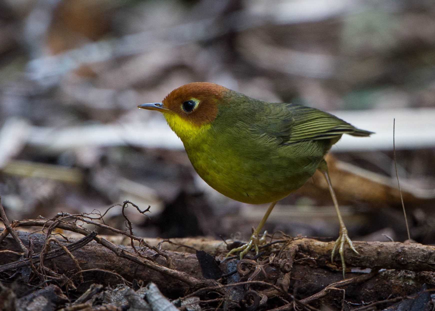 22 December 2013 - Doi Lang, Chiang Mai, Thailand